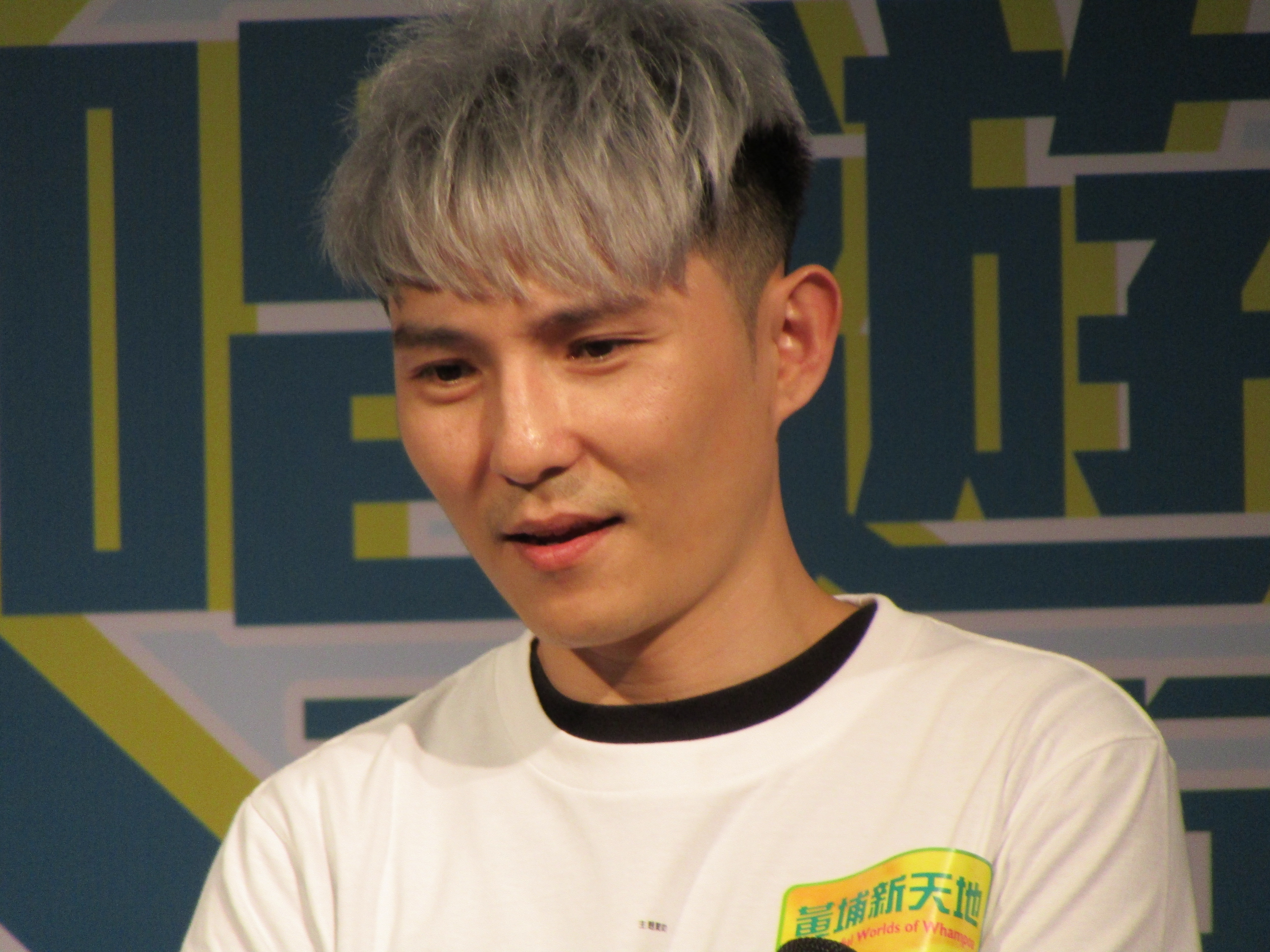 Ryan Lau is singing at Wonderful Worlds of Whampoa, Hung Hom